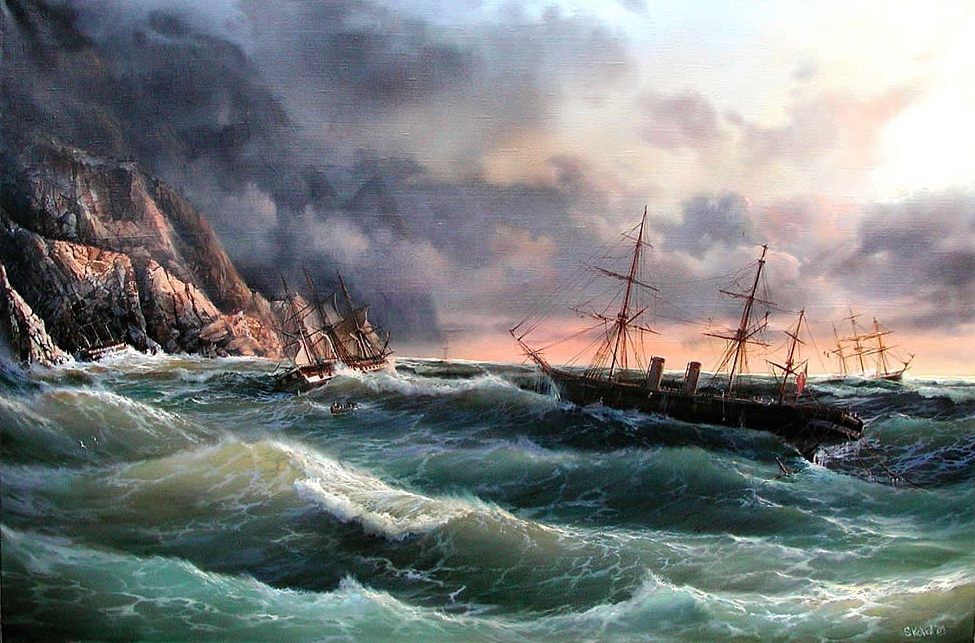 The Wreckage of the Black Prince (although named in the title as Black Prince, the ship depicted is HMS Prince, which was wrecked off Balaclava on 14 November 1854). Fragment